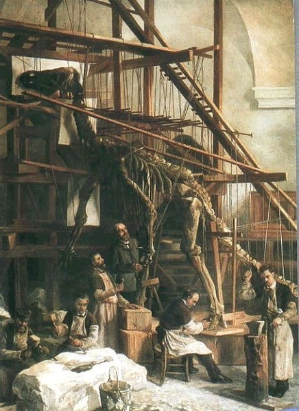 Louis François De Pauw, head preparer at the Royal Belgian Institute of Natural Sciences, supervising the first reconstruction of an Iguanodon in the St. George Chapel in Brussels, 1882. Belgian paleontologist Louis Dollo (1857-1931) directed the works (not in the picture). Painting on display in the Brussels Museum of Natural History.